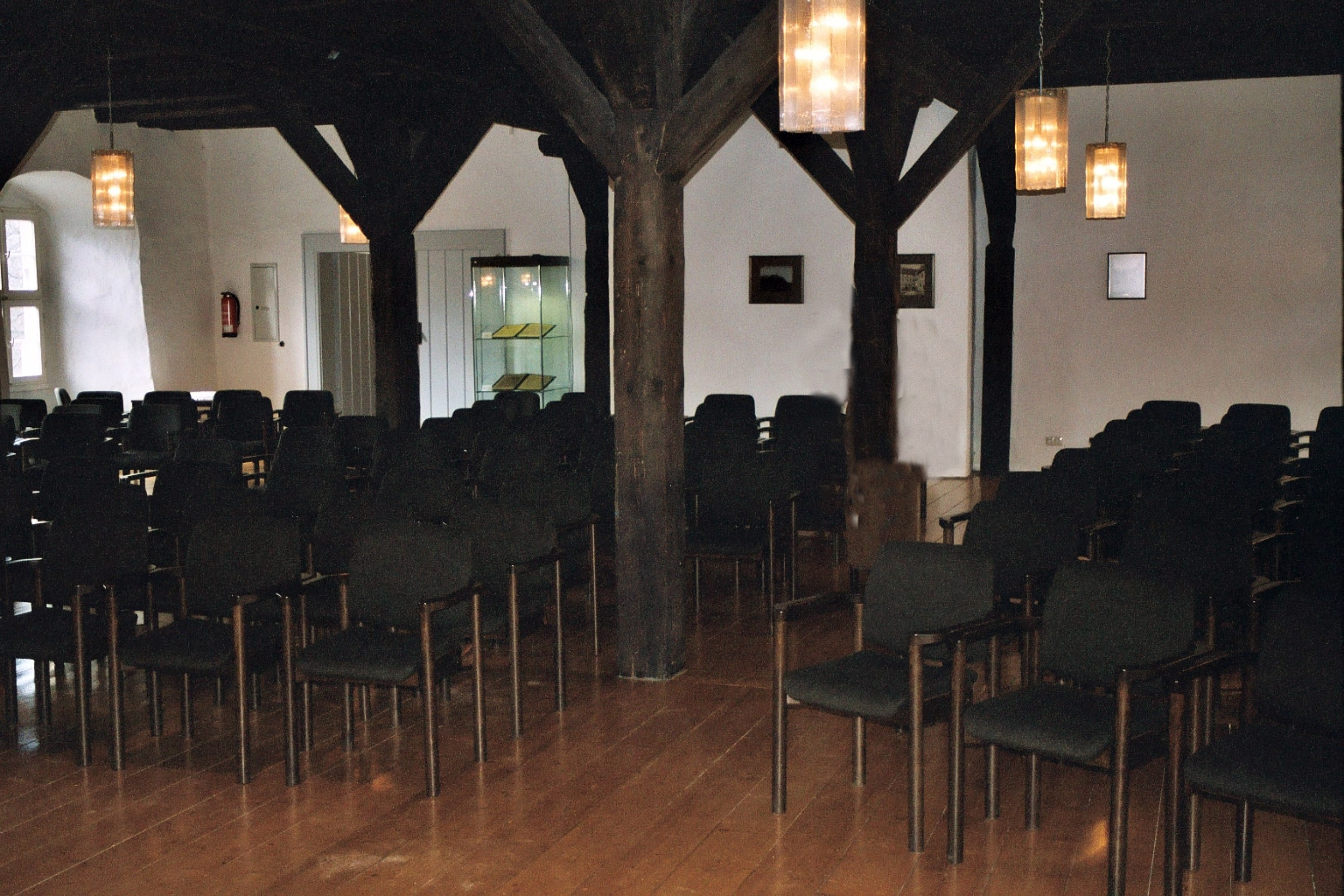 Herzberg am Harz, the castle, the concert hall